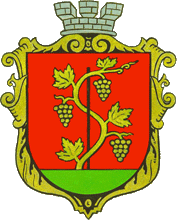 Coat of arms Bilhorod-Dnistrovsky (Ukraine)